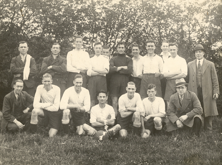 Peter James is featured in the Nicholson Sons & Daniels Ltd. football team photograph from 1934, on the back row, third from the left.